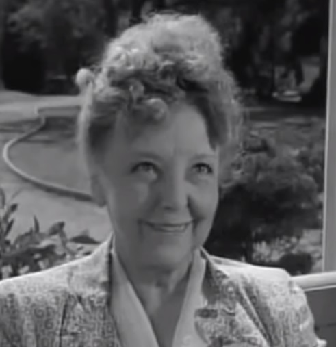 Mary Young in Shock - cropped screenshot